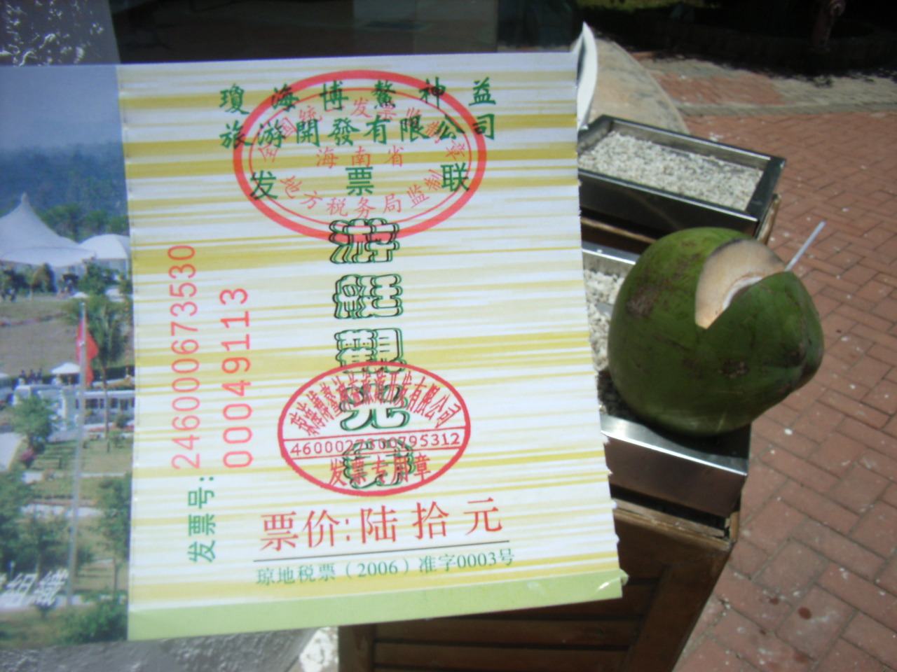 Boao Aquapolis, Qionghai County, Hainan Island, China User:HNPIX